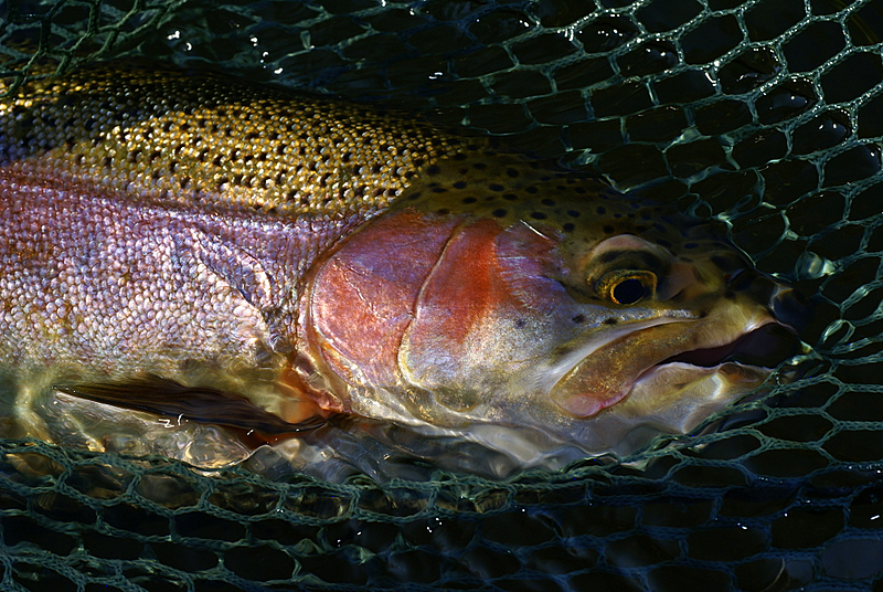 Adult rainbow trout head in net. Photo by Mike Anderson